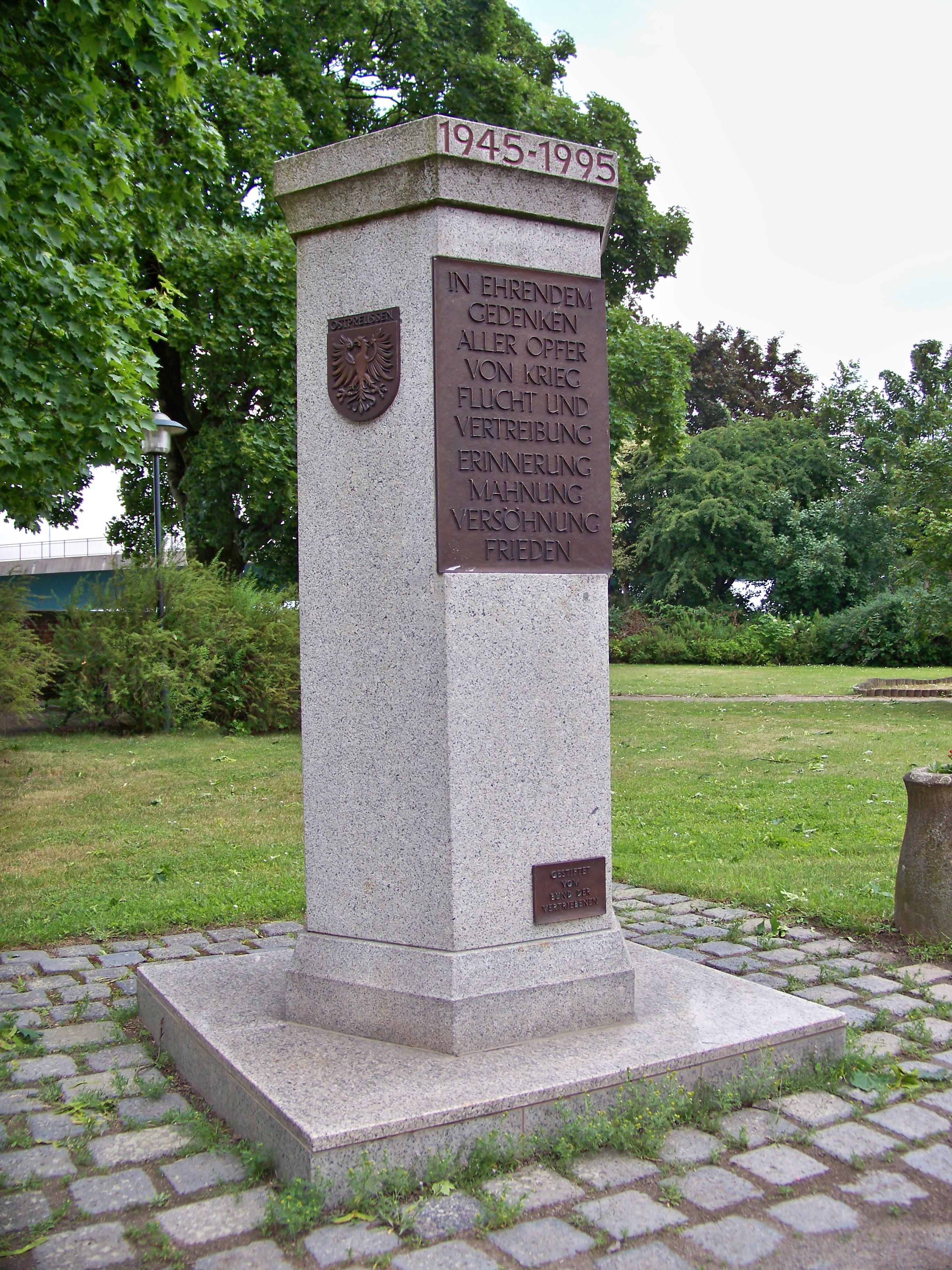 31. Mai 2009